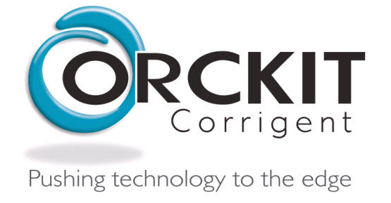 I made this logo for Orckit-Corrigent. It is their official logo.